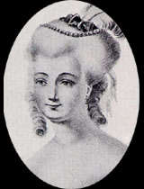 Marguerite Brunet, known by her stage name of Mademoiselle Montansier (19 December 1730, Bayonne - 13 July 1820, Paris), was a French actress and theatre director.